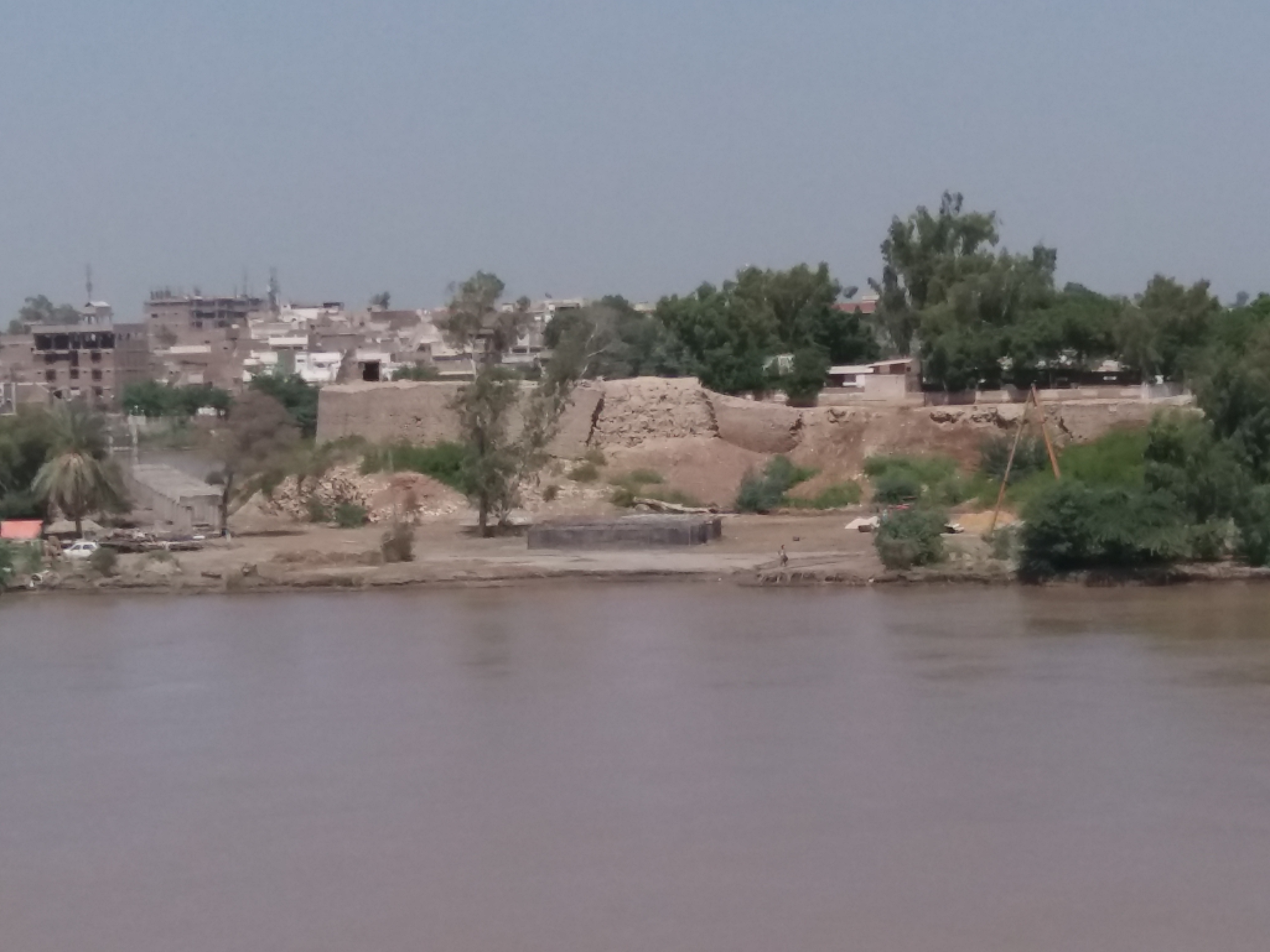 Bakkar fort now in poor conditions, unable to see door and walls This is a photo of a monument in Pakistan identified as the SD-58